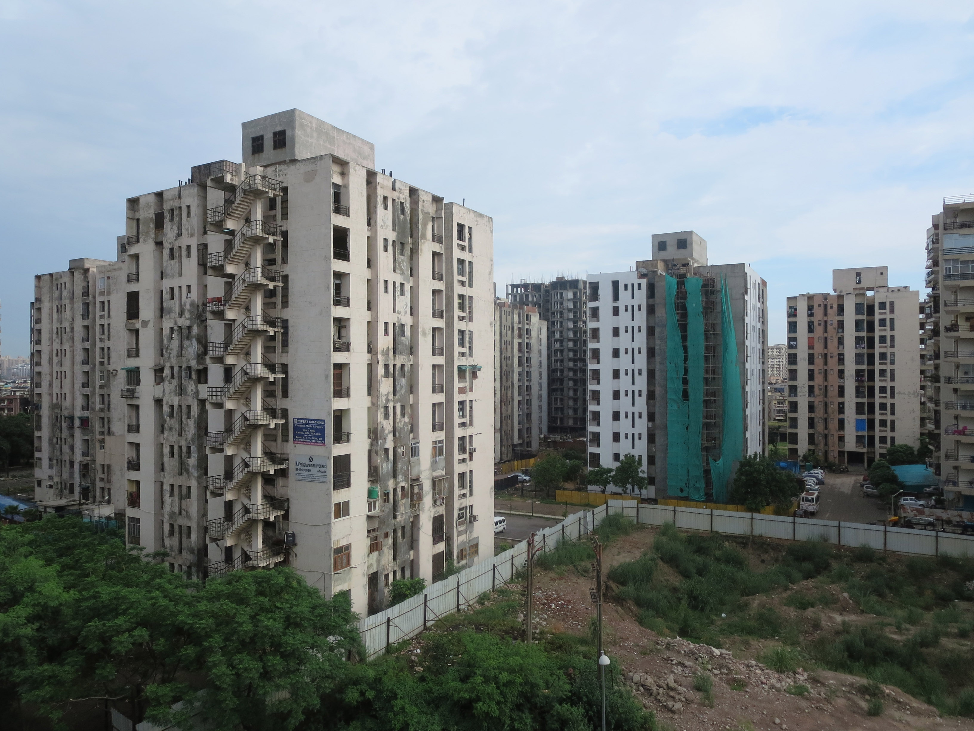 Residential apartments near Vaishali Metro Station, New Delhi